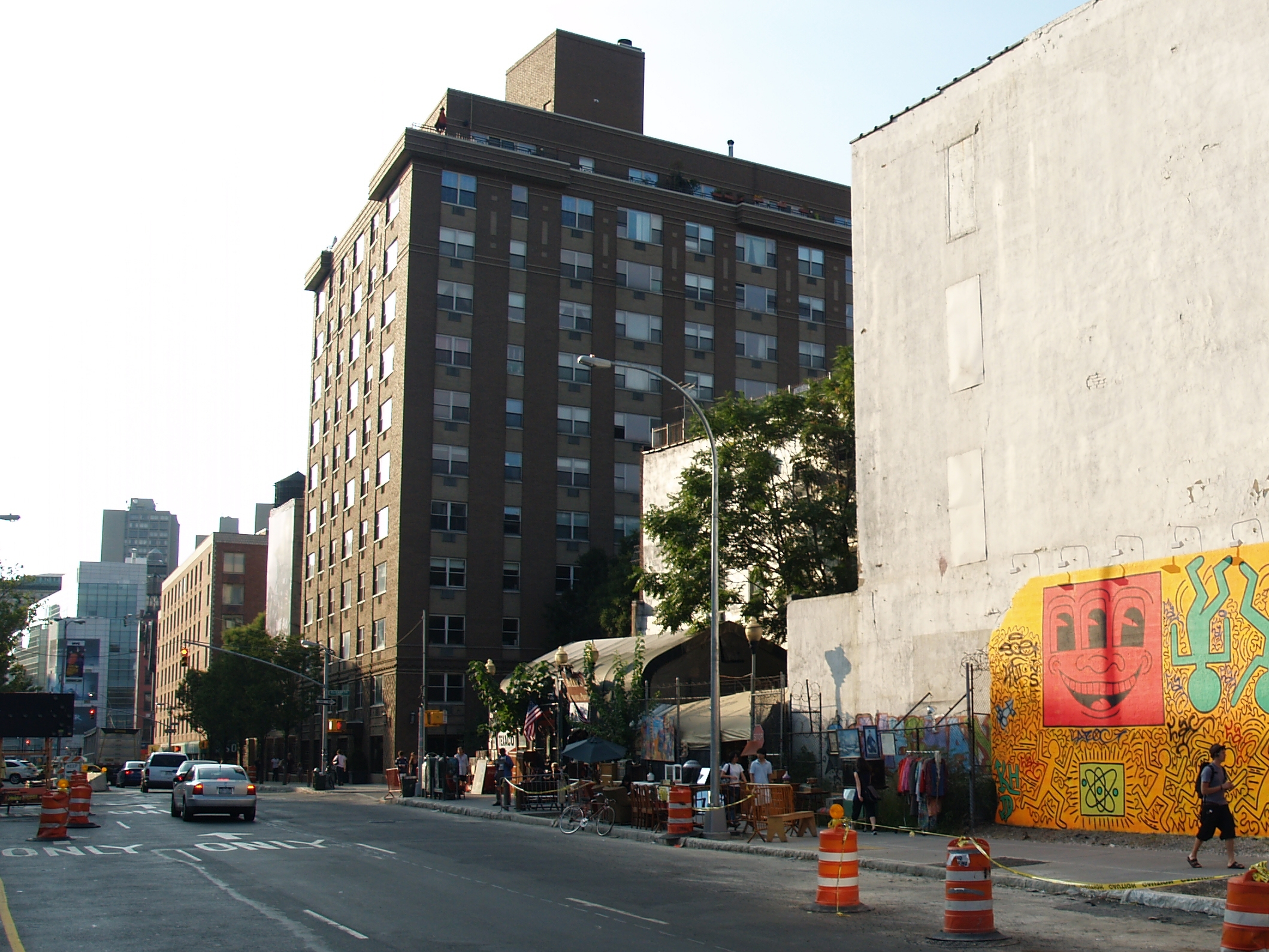 The corner of Houston Street and The Bowery in the East Village of New York City, with part of a mural painted in homage to local artist Keith Haring.